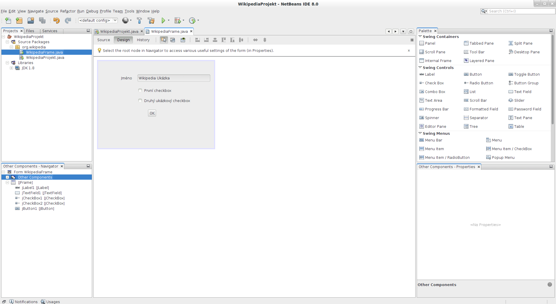 Swing/AWT graphic interface builder showcase.